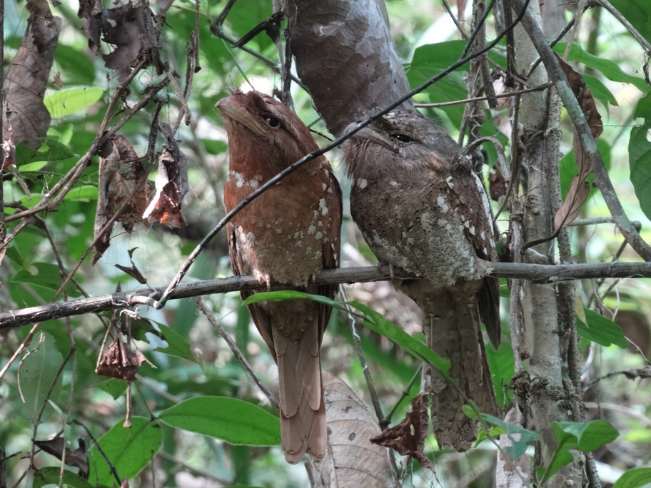 Ceylon Frogmouth (Batrachostomus moniliger) female and male birds, taken from Thattekad Bird Sanctuary, Kerala, India.